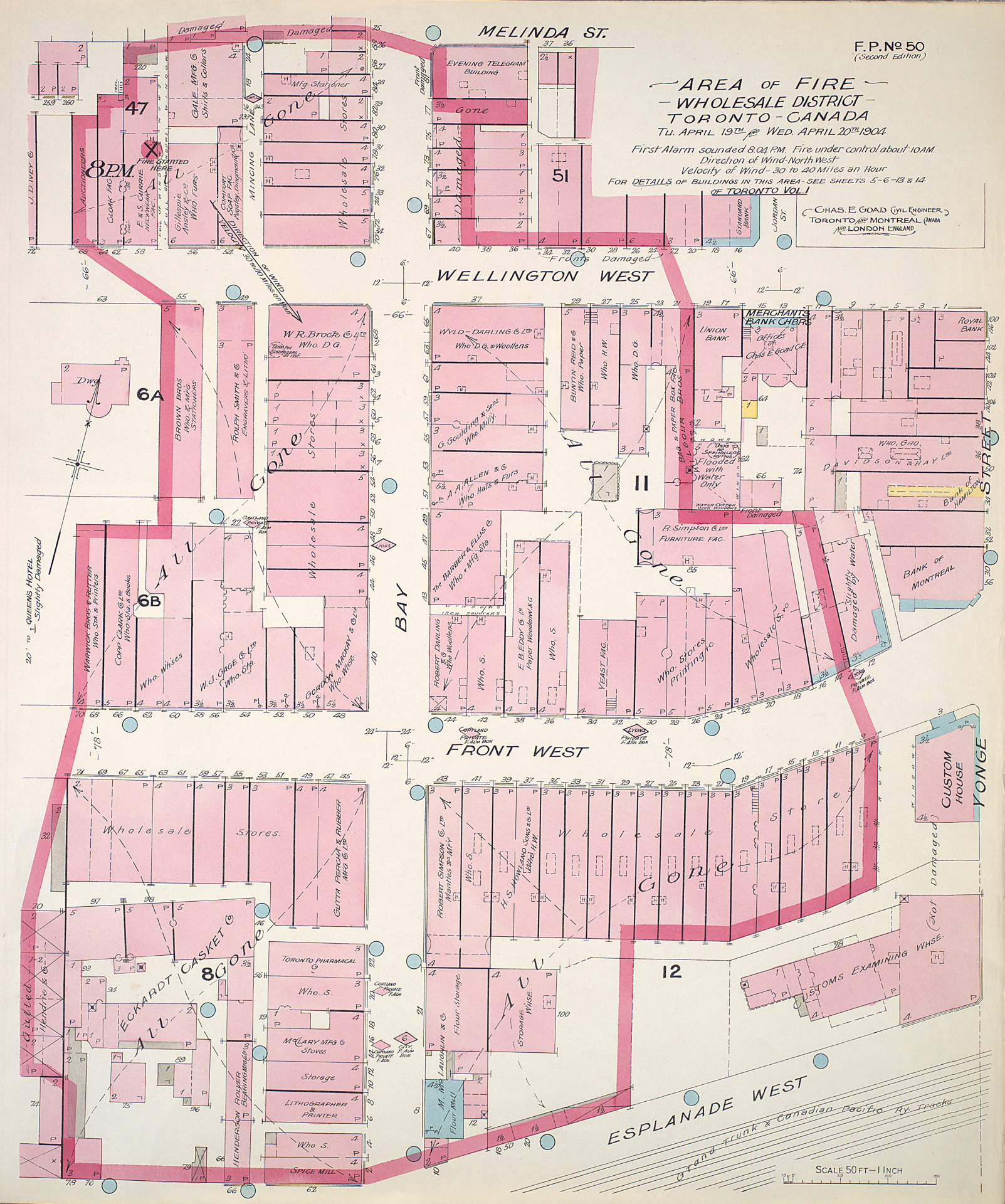 On Tuesday, April 19, and Wednesday, April 20th, 1904, a massive fire ripped through Toronto’s downtown core (in the Bay - Wellington - Esplanade area.) The first alarm sounded at 8:04pm, under a strong north-west wind (30-40 mph). The fire was not under control until 10 am the next morning. This fire insurance map shows the area damaged by the fire.